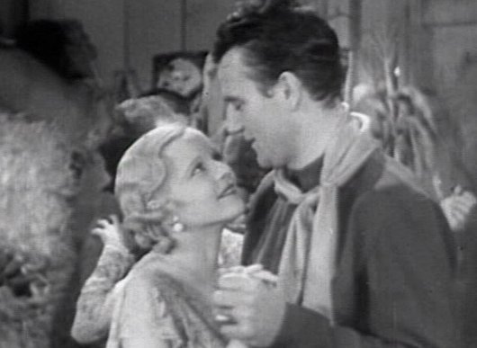 Lucile Browne and John Wayne in Texas Terror (1935)